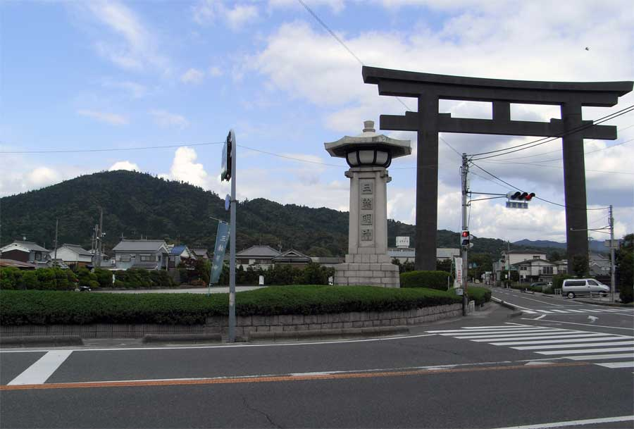 Ohmiwa Shrine, Big Tori